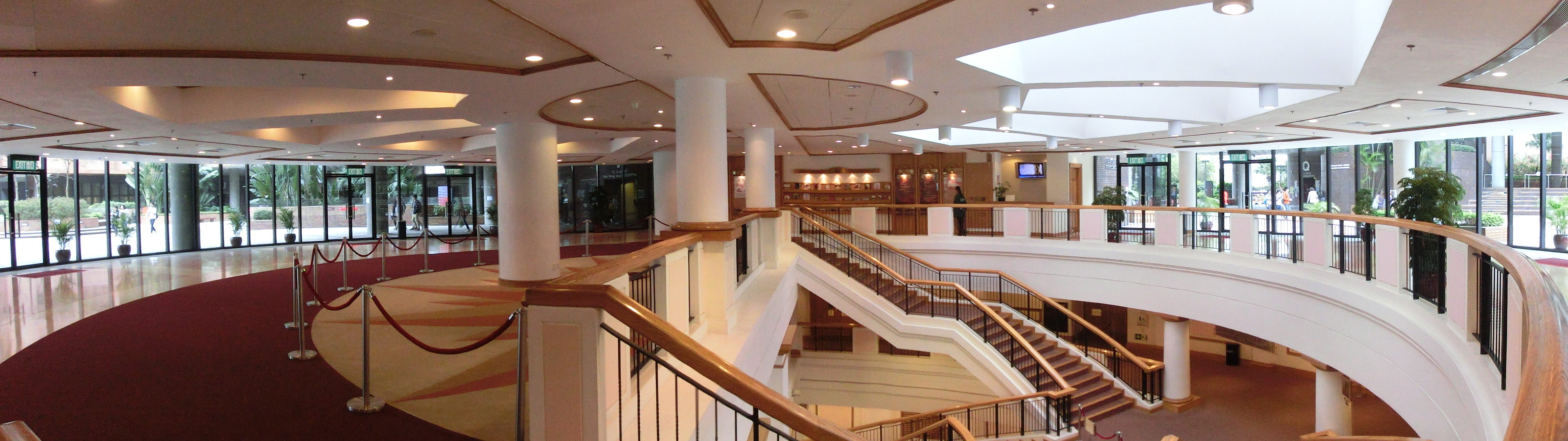 賽馬會綜藝館, Jockey Club Auditorium, Hong Kong in Feb-2013